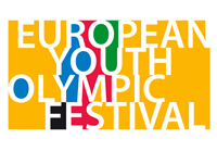 European Youth Olympic Festival logo.